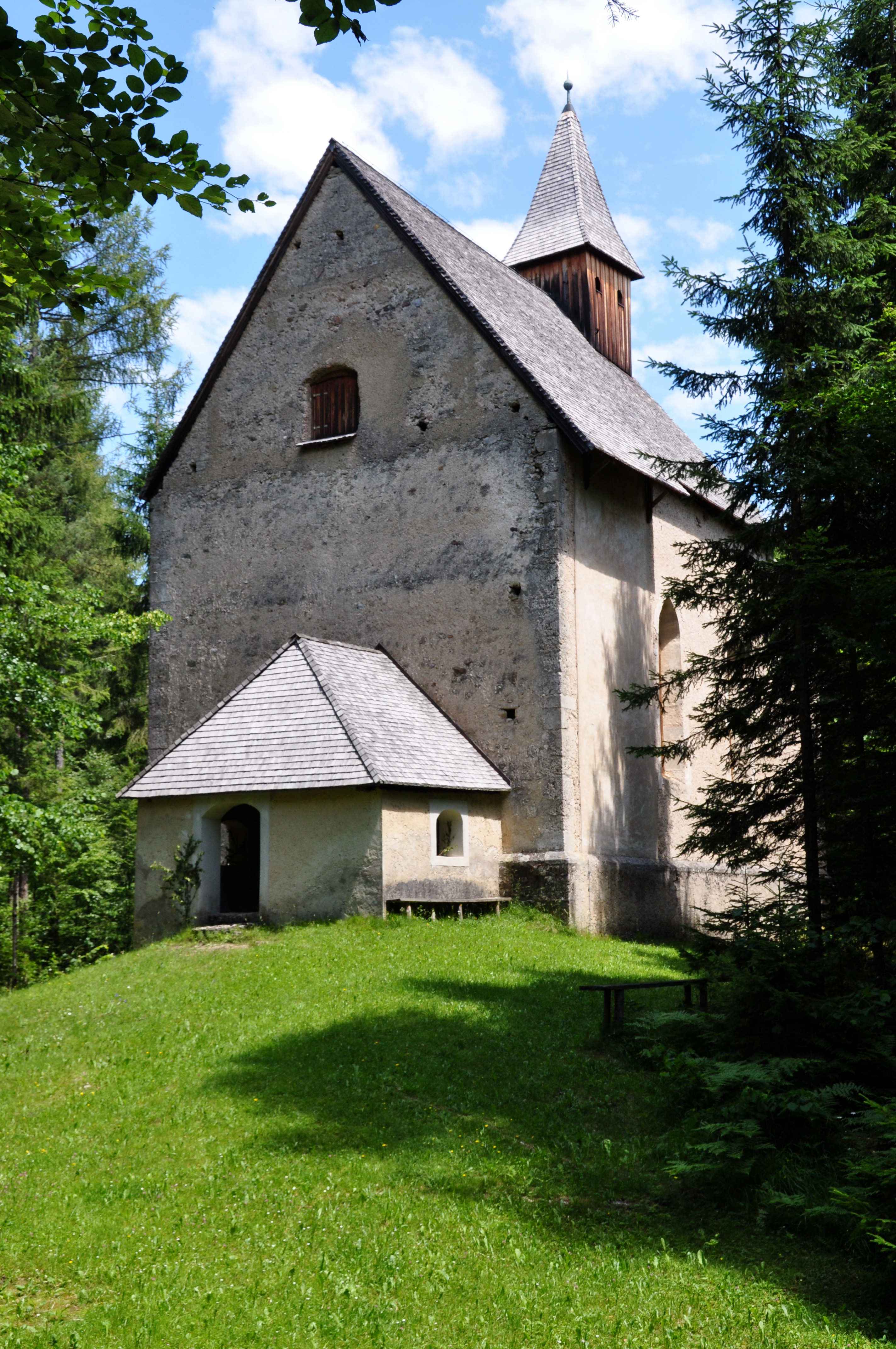 Subsidiary church Saint Helena at Grosskleinberg in the municipality Ludmannsdorf, district Klagenfurt Land, Carinthia, Austria